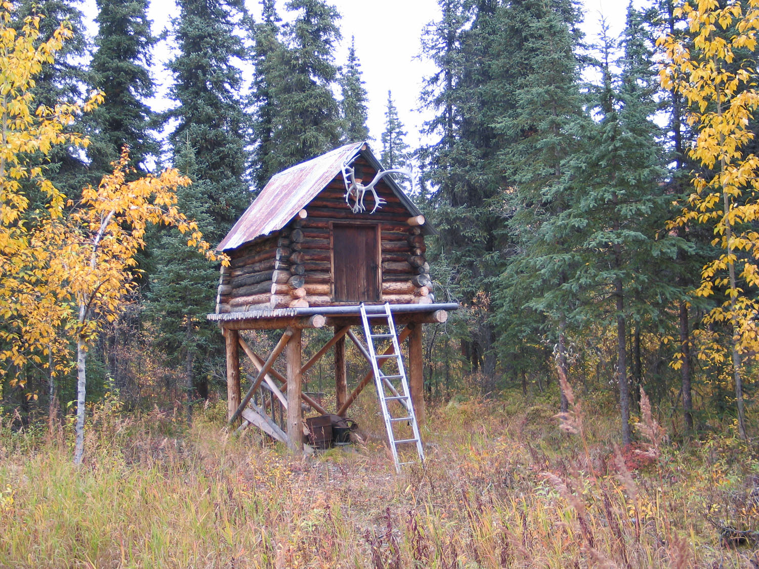 Moose Creek Shelter Cabin food cache, Denali National Park, Alaska, USA